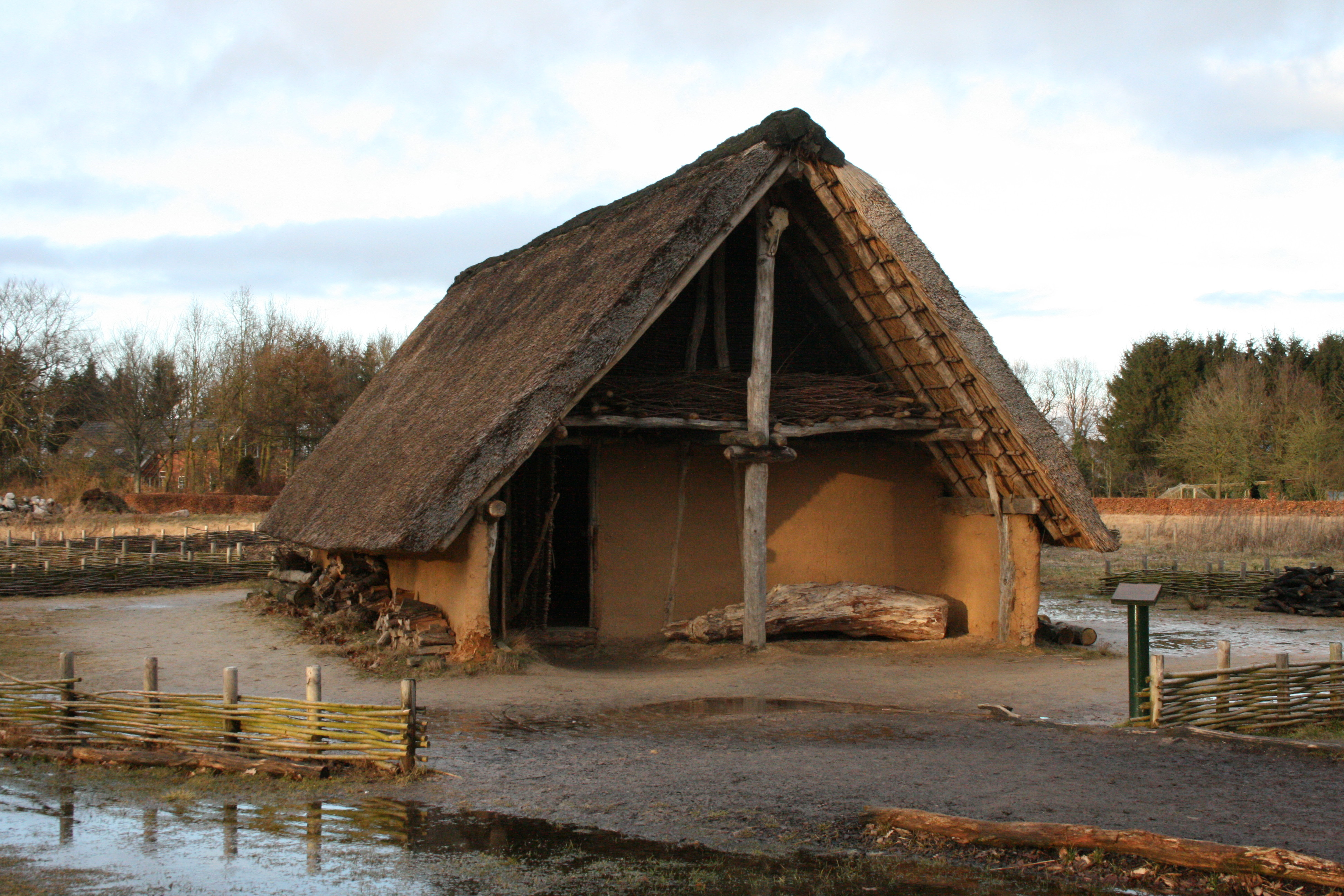 The Hunebedcentrum in Borger, province of Drenthe (Netherlands) is a museum devoted to the builders of neolithic megalithic monuments called "hunebedden" in Dutch. Neolithic house outside the museum